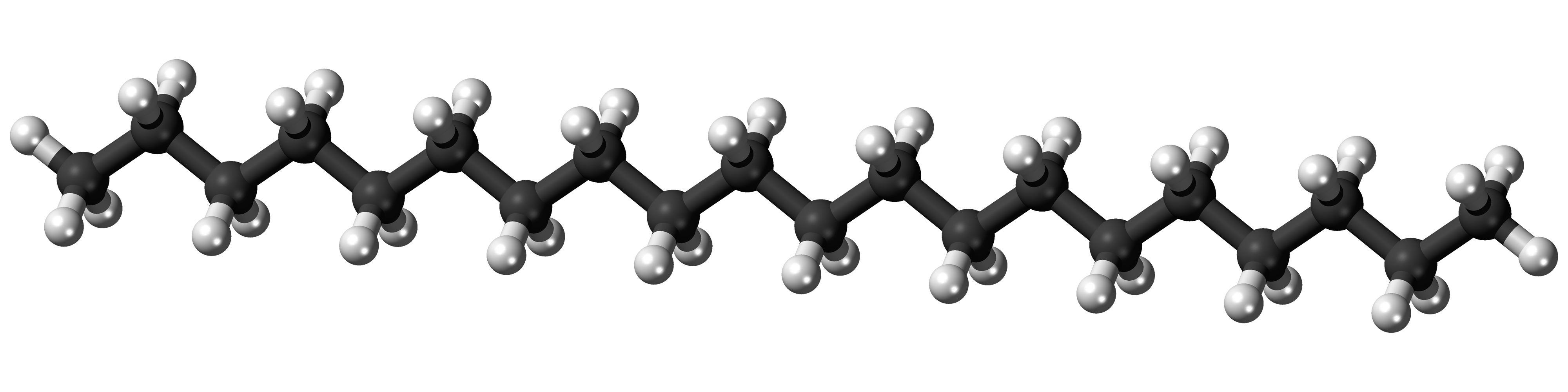 Ball-and-stick model of the icosane molecule, an alkane with 20 carbon atoms. Color code: Carbon, C: black Hydrogen, H: white